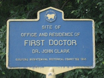 Historic marker of the office and residence of the first doctor, Dr. John Clark, Guilford, NY.